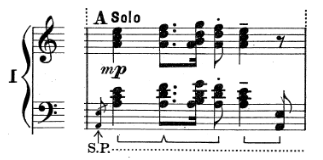 Theme 1 of Grieg's Piano Concerto